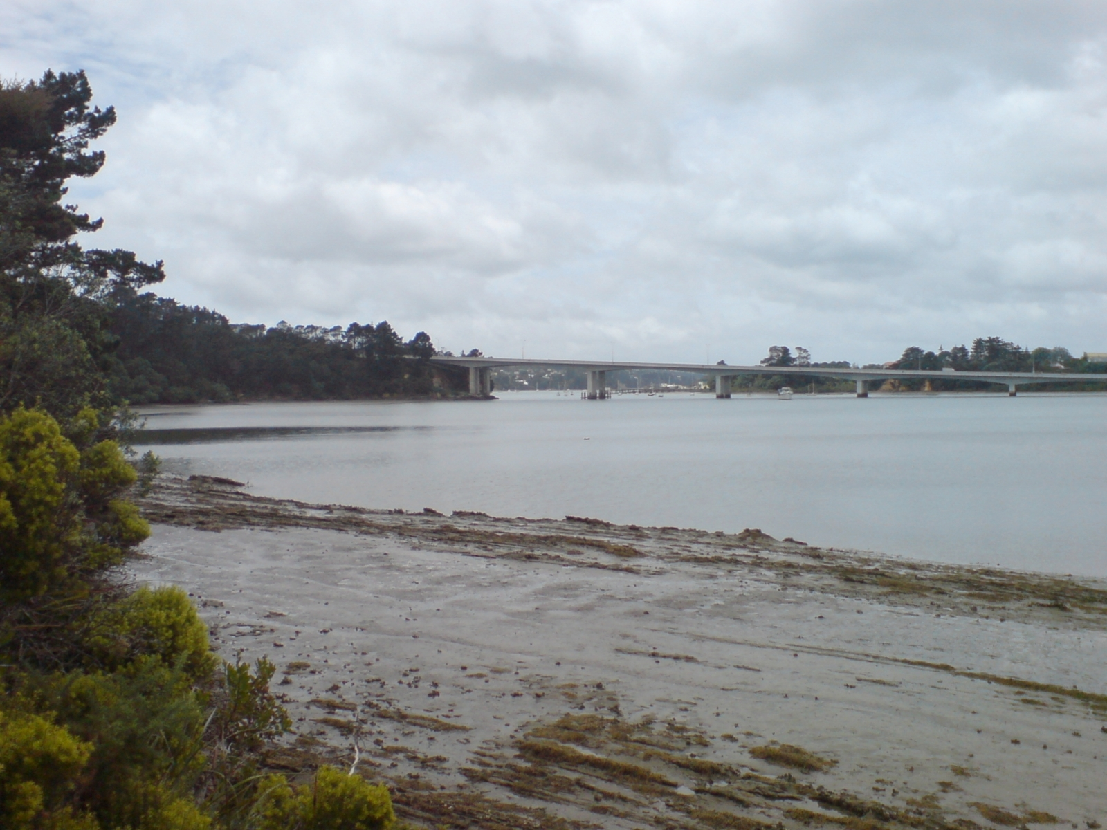 The Upper Harbour Bridge in North Shore City, New Zealand. Taken from a small promontory north of the bridge.